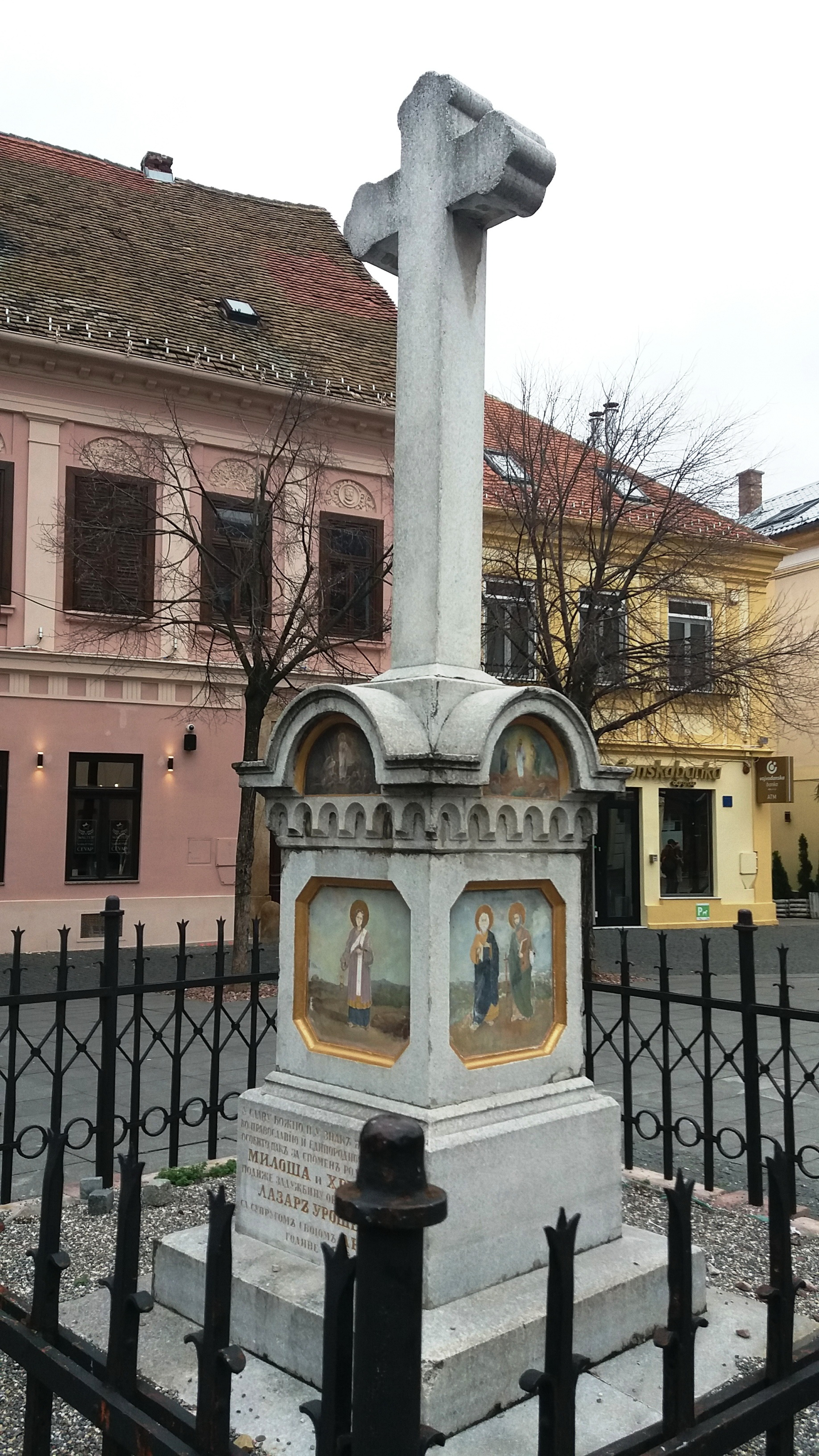 The Testament Cross in Zemun, on Magistrate Square, erected by Lazar Urosevic in 1863.